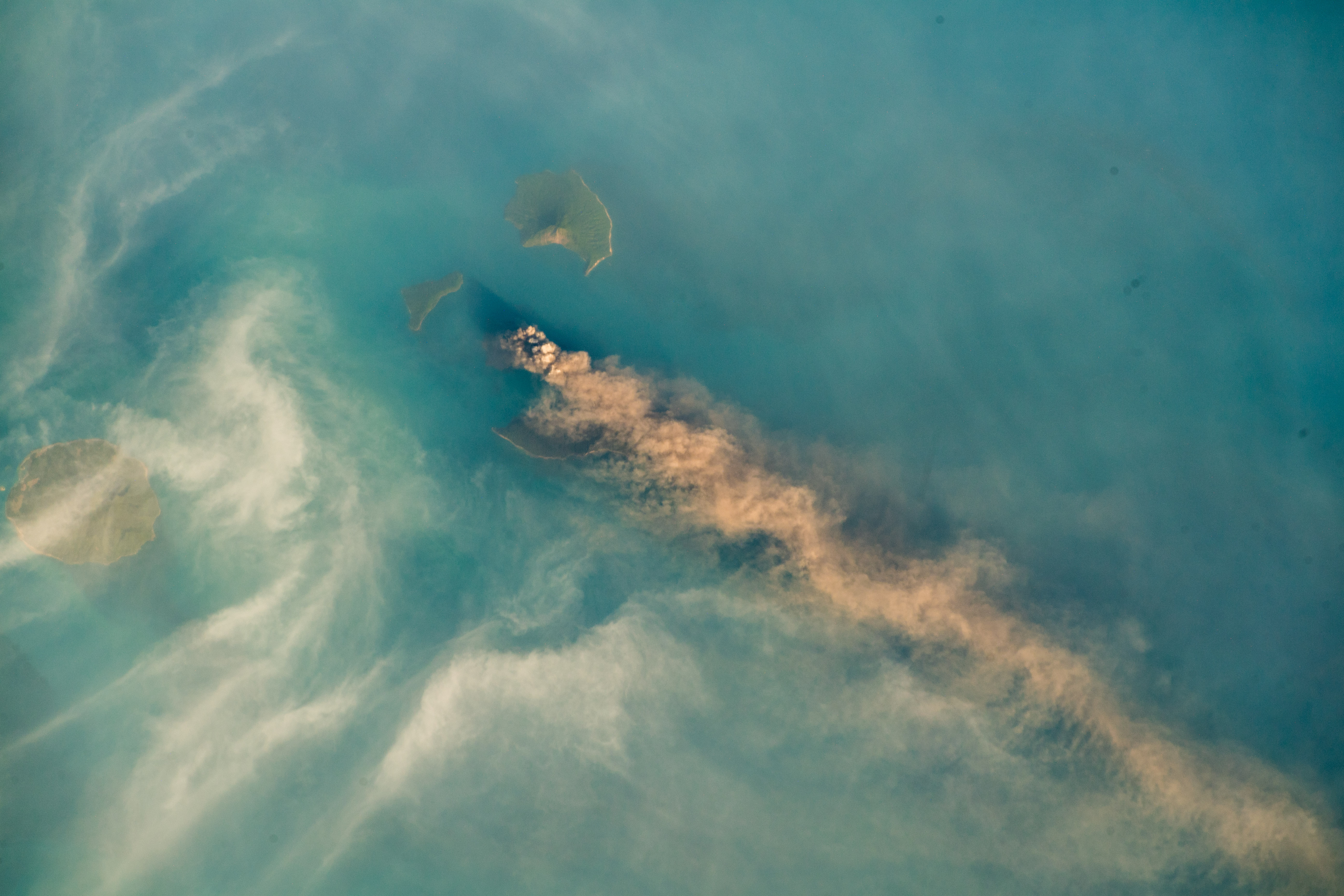 Saw the infamous Krakatoa volcano in eruption this morning. Habe heute Morgen zufällig gesehen, dass der berüchtigte Krakatau Vulkan wieder ausgebrochen ist. ID: 401U5633 Credit: ESA/A.Gerst, CC BY-SA 3.0 IGOt